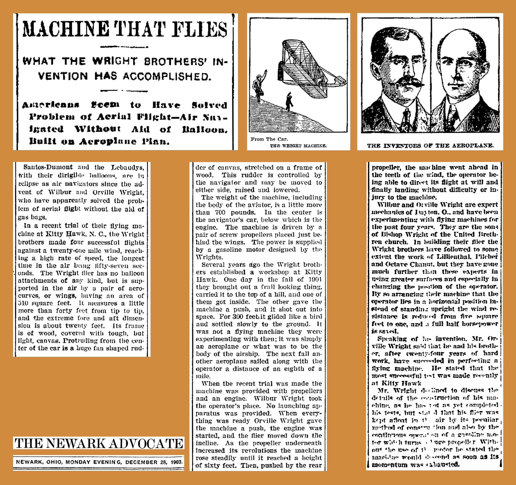 Newspaper article describing the Wright Brothers' first powered, heavier-than air flight at Kitty Hawk, North Carolina, U.S. (The Newark Daily Advocate, December 28, 1903) Some elements of the article have been resized for presentation. The original article, including two images, occupied a full single column. Last paragraphs of article are a bit hard to read in the original image. I think they are: Wilbur and Orville Wright are expert mechanics of Dayton, O., and have been experimenting with flying machines for the past four years. They are the sons of Bishop Wright of the United Breth- ren church. In building their flier the Wright brothers have followed to some extent the work of Lillienthal, Pilcher and Octave Chanut, but they have gone much further than these experts in using greater surfaces and especially in changing the position of the operator. By so arranging their machine that the operator lies in a horizontal position in- stead of standing upright the wind re- sistance is reduced from five square feet to one, and a full half horsepower is saved. Speaking of his invention, Mr. Or- ville Wright said that he and his broth- er, after twenty-four years of hard work, have succeeded in perfecting a flying machine. He stated that the most successful test was made recently at Kitty hawk. Mr. Wright declined to discuss the details of the construction of his ma- chine, as he has not as yet completed his tests, but stated that his flier was kept afloat in the air by its peculiar method of construction and also be the continuous operation of a gasoline mo- tor which turns a huge propeller. With- out the use of the motor he stated the machine would descend as soon as its momentum was exhausted. References are to: Alberto Santos-Dumont Lebaudy brothers Otto Lilienthal Percy Pilcher Octave Chanute